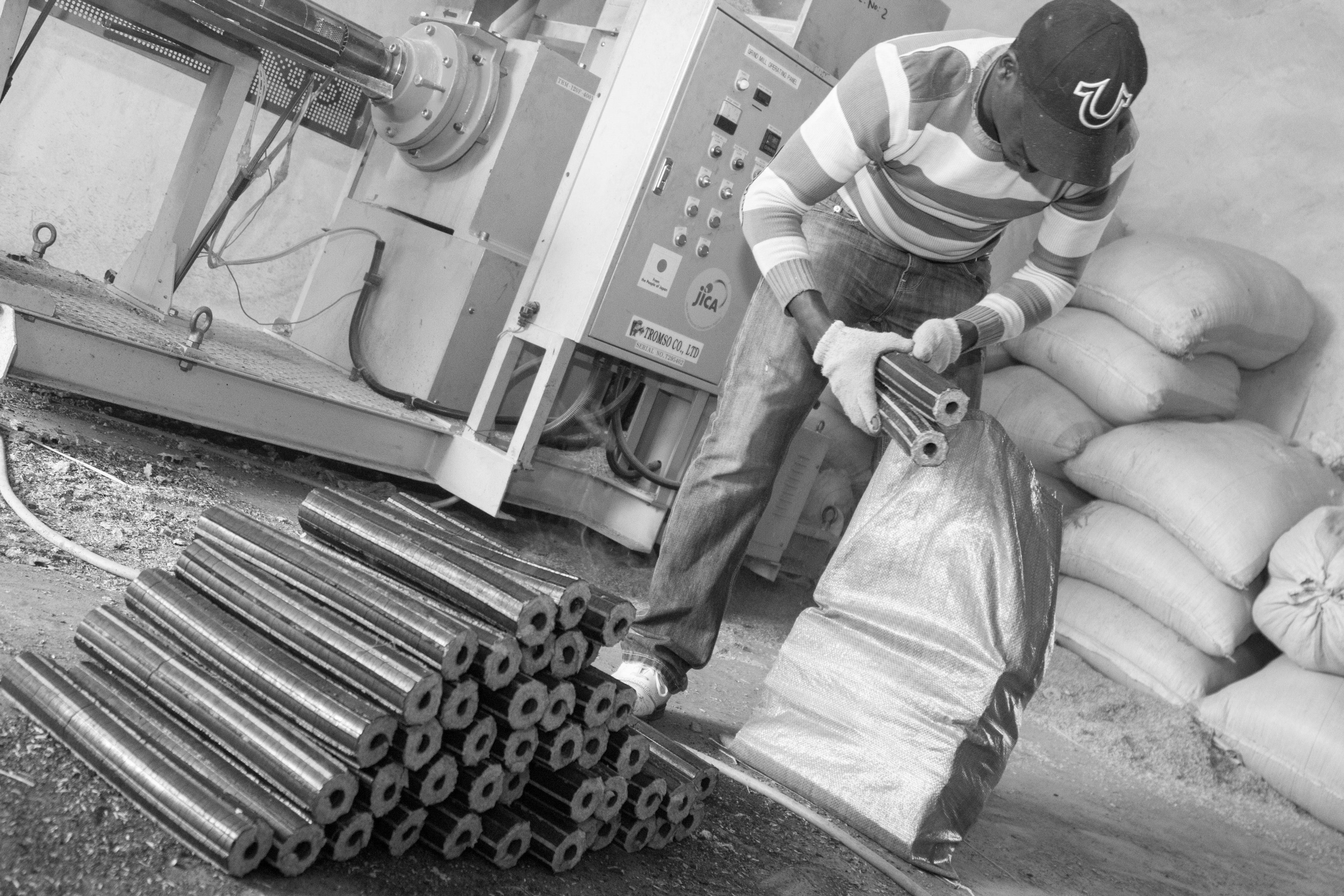 This is an image of "African people at work" from Tanzania